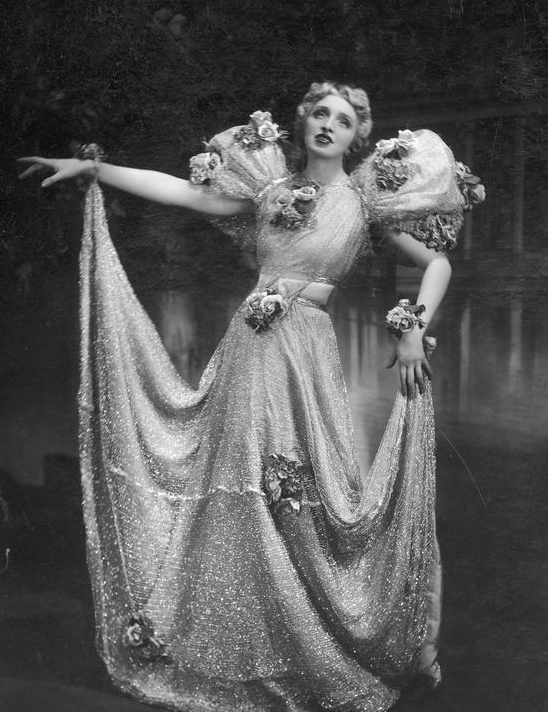 Cabaret singer Ordonka (Hanka Ordonówna)